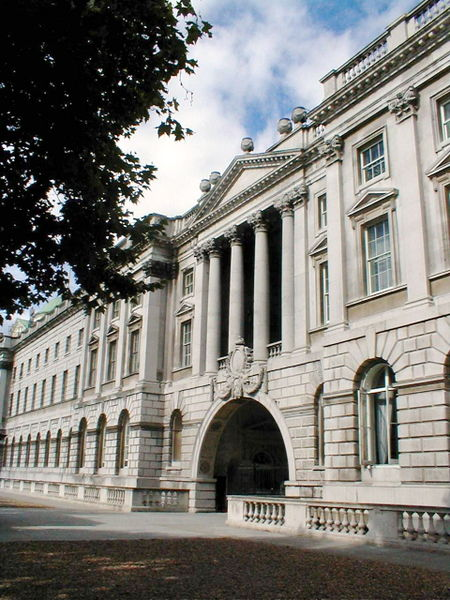 South West Building, Strand Campus, overlooking the Thames